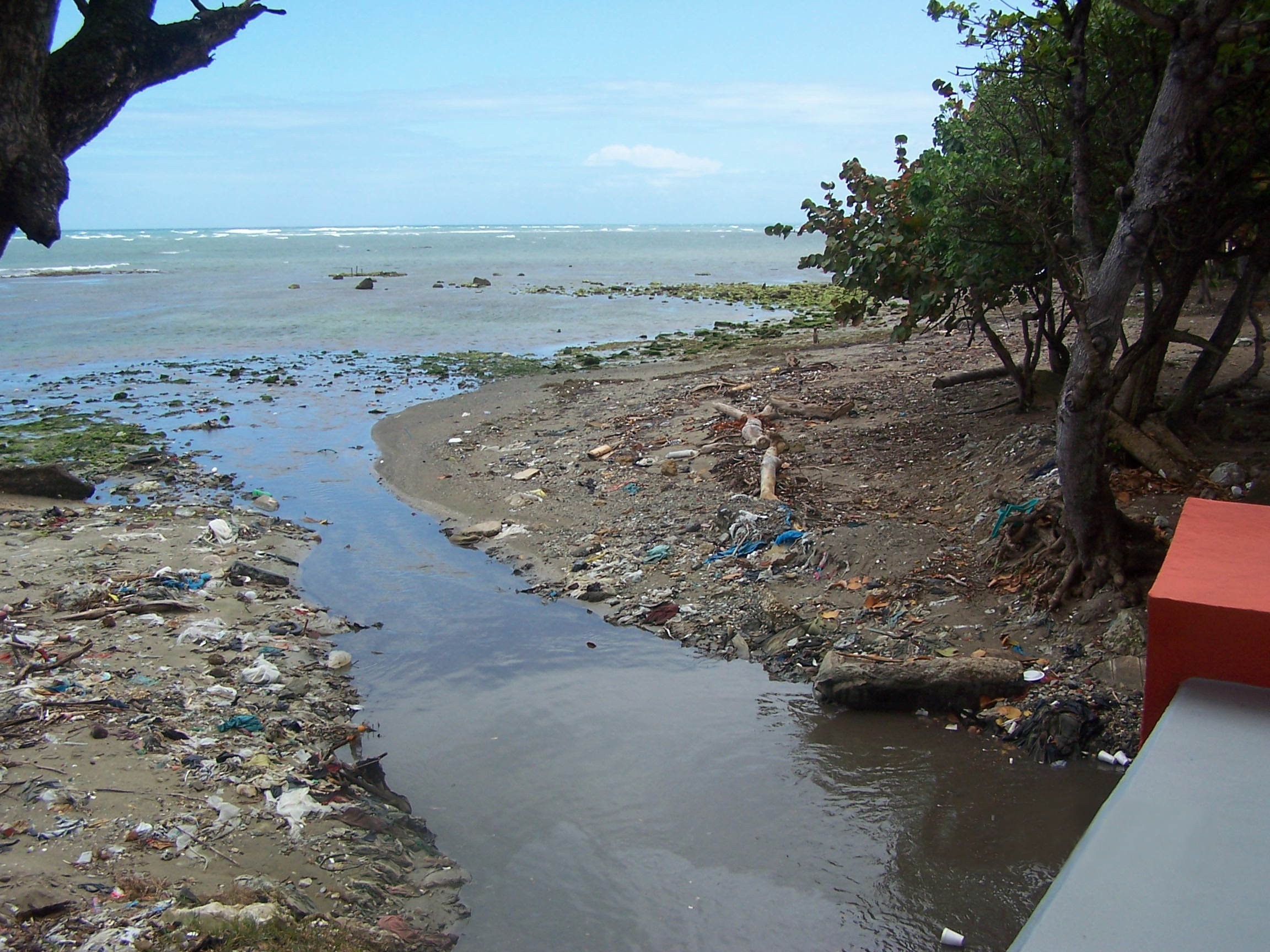 Dominican Republic, 2006. Unused beach with garbage.